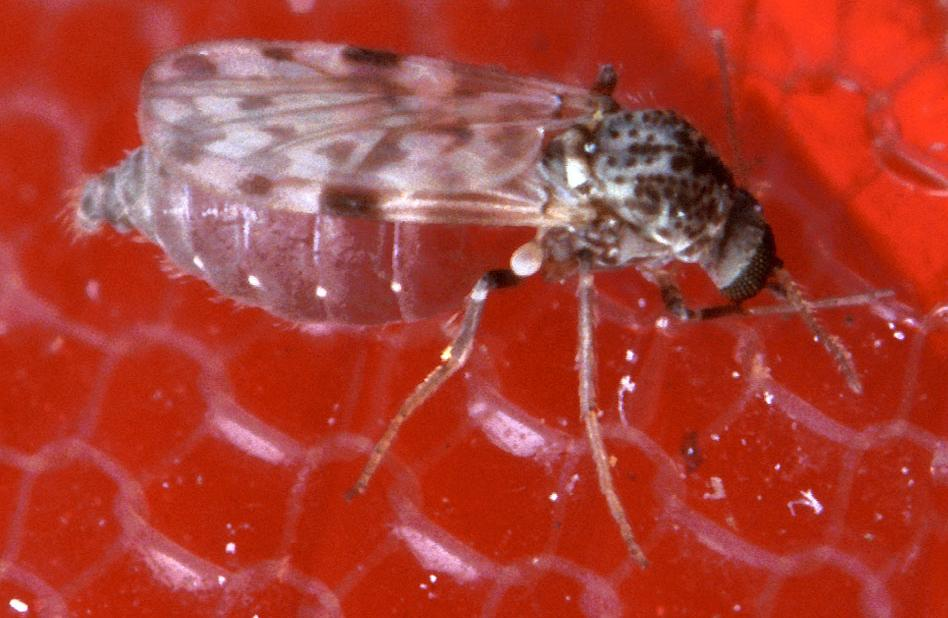 A sixteenth-inch-long (1.6mm) female biting midge (Culicoides sonorensis) feeding on blood delivered through artificial membrane developed for mass insect rearing